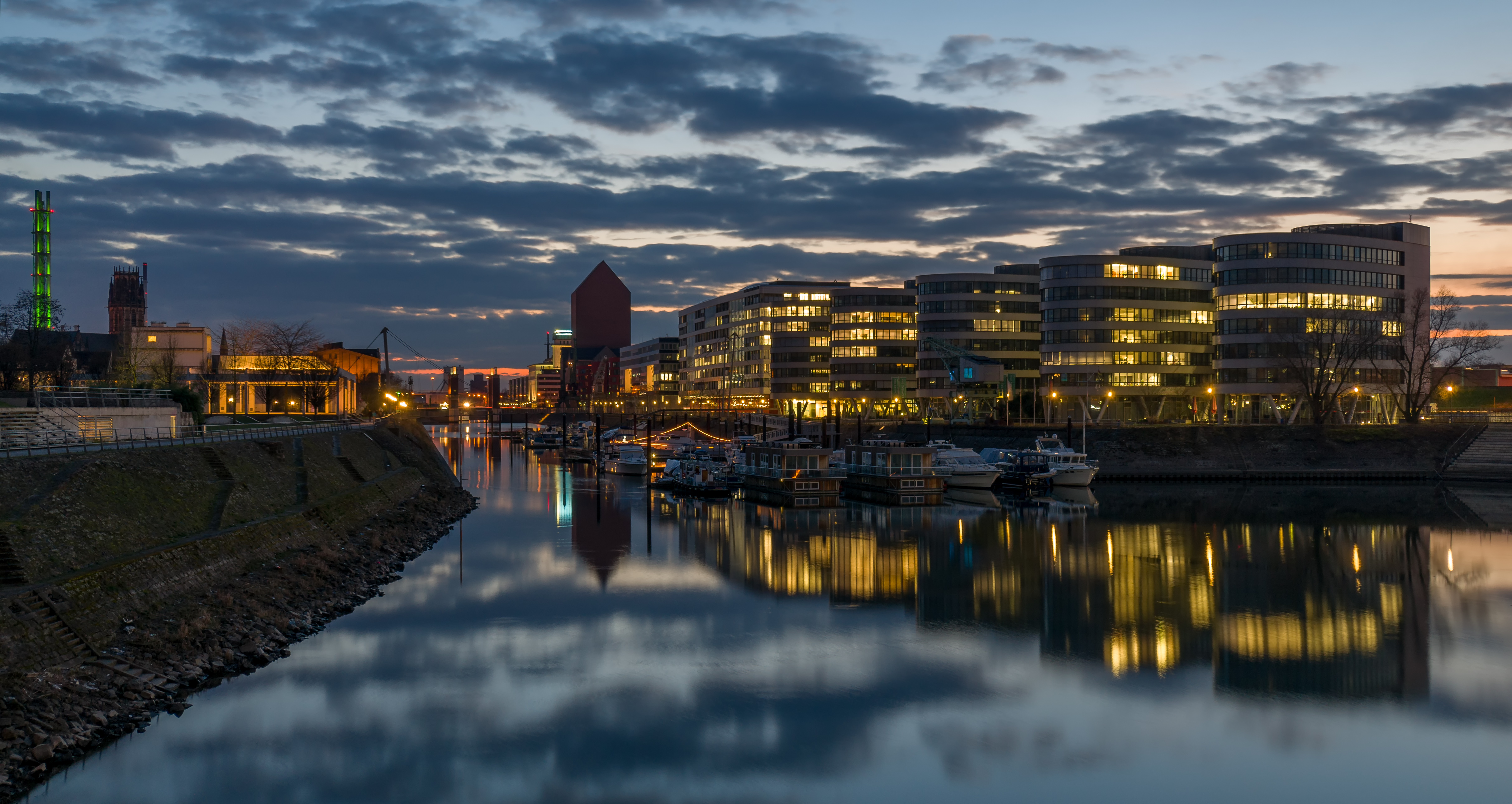 Nightly view of Duisburg Inner Harbour with office building "Five Boats" and marina